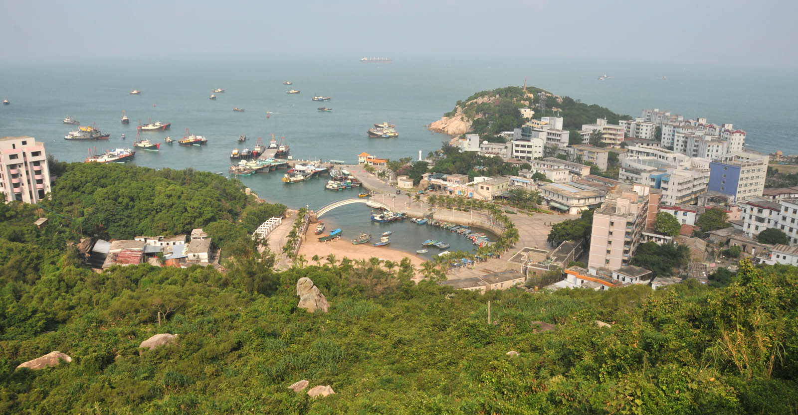 Outer Lingting Island, Kwangtung 粵語: 廣東珠海外伶仃島